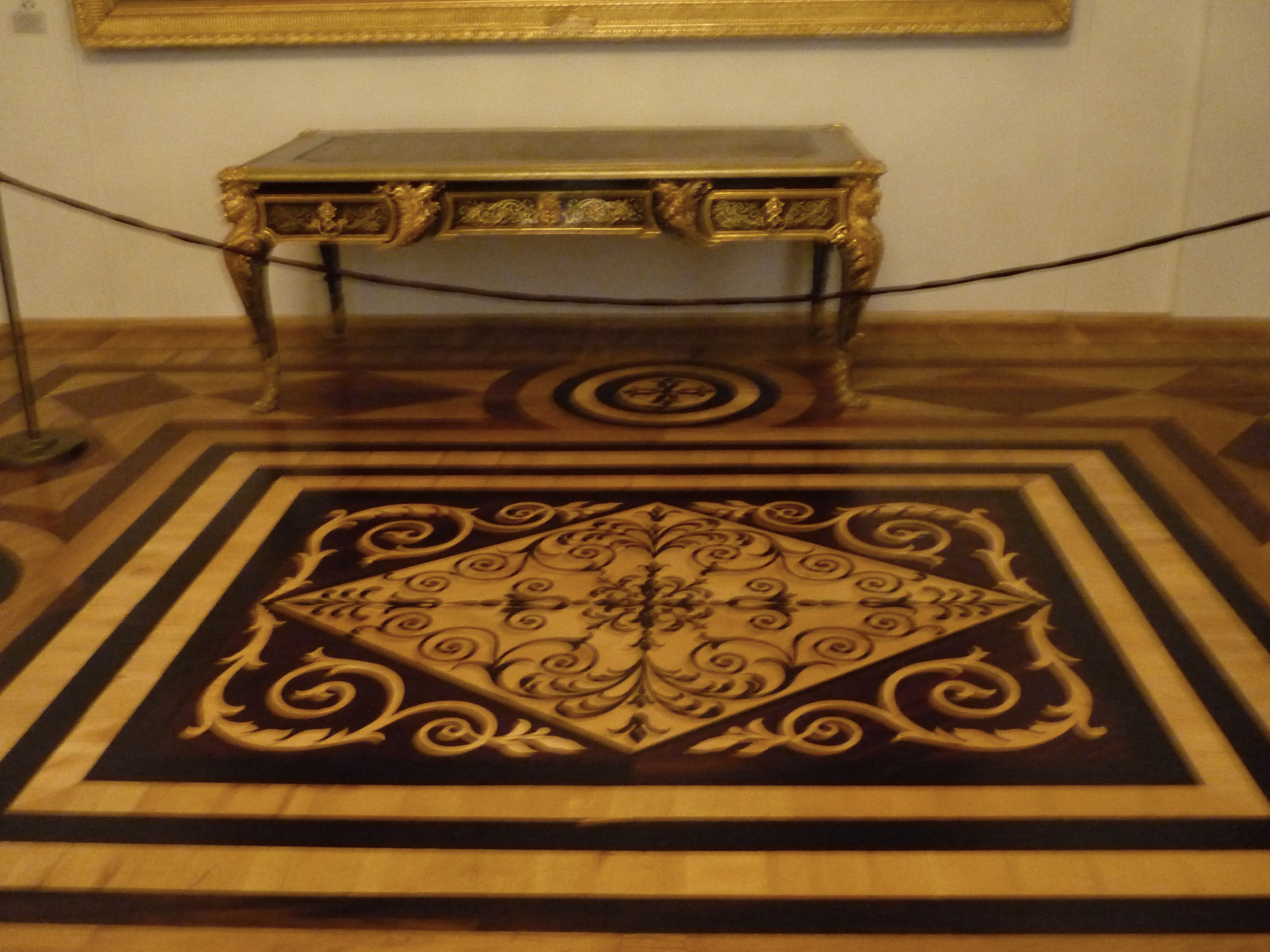 A Winter Palace interior in St Petersburg. The Winter Palace now houses the Hermitage Museum. The Palace was originally built and decorated in 1730 and was rebuilt after a major fire while under siege by Napoleon's troops.